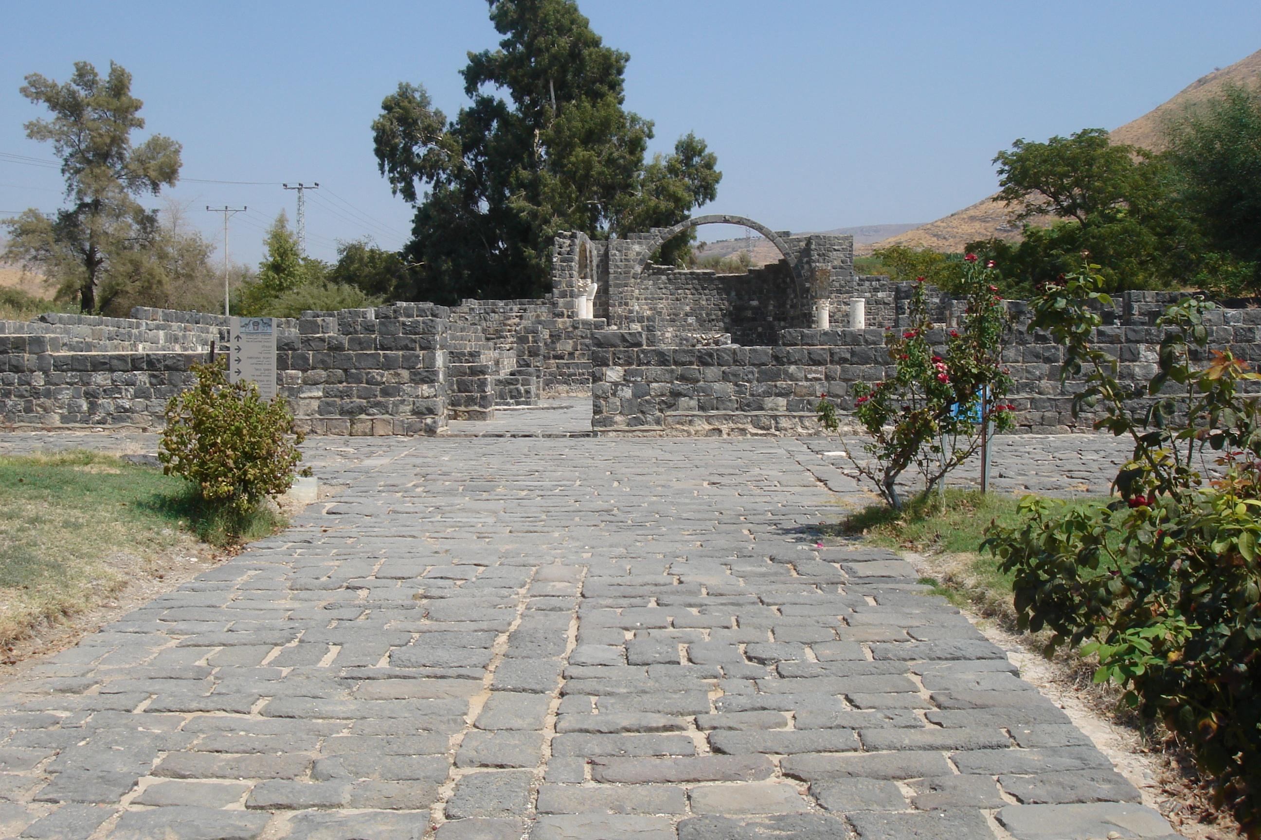 The church in Kursi,View from the monastery, Kursi National Park